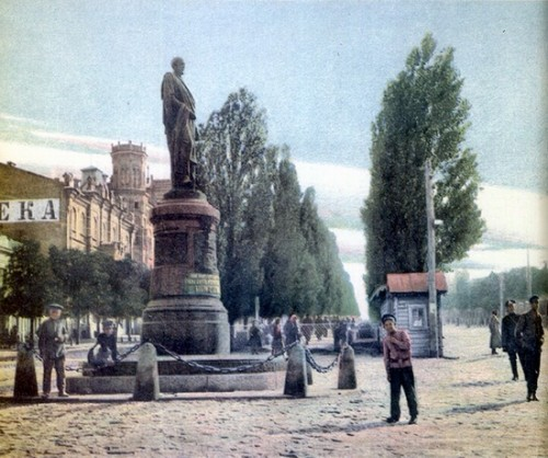 A photo of a monument to Count Oleksiy Bobryns'kiy in old Kyiv